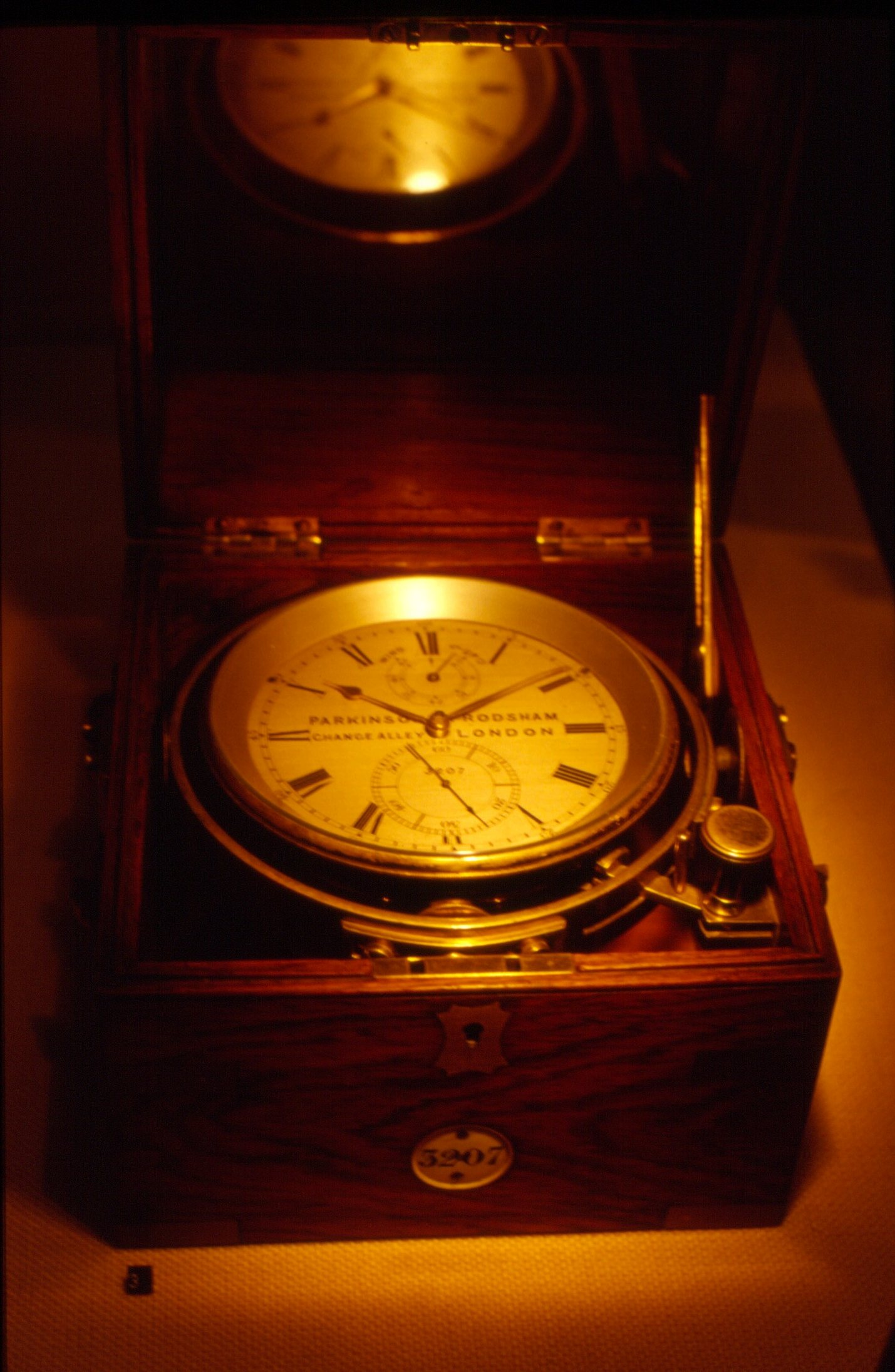 Musée International d'Horlogerie, La Chaux-De-Fonds, Switzerland.